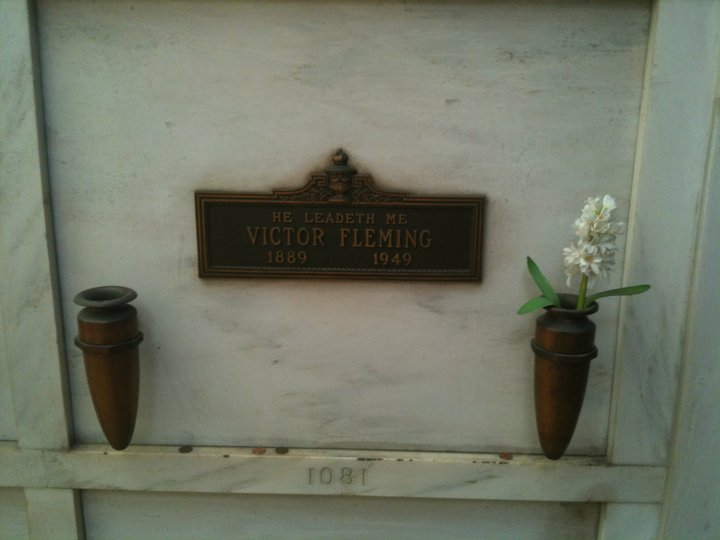 Headstone for director Victor Fleming, taken on May 29, 2011 at the Hollywood Forever Cemetery in Hollywood, California.